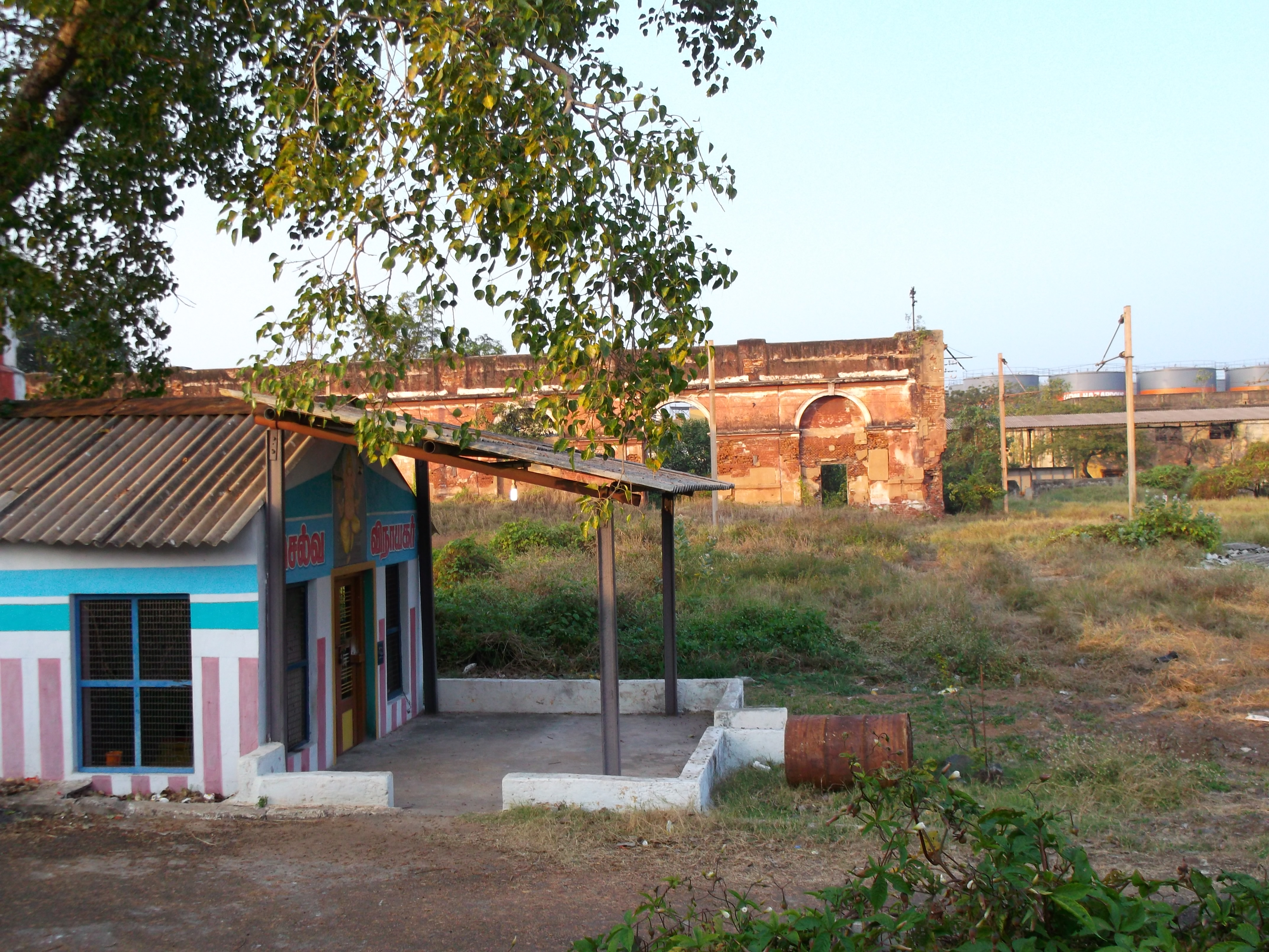 Chennai Suburban Railway, Royapuram towards northern side with temple and heritage building, taken on 28-Jan-2013 at 5.00 pm